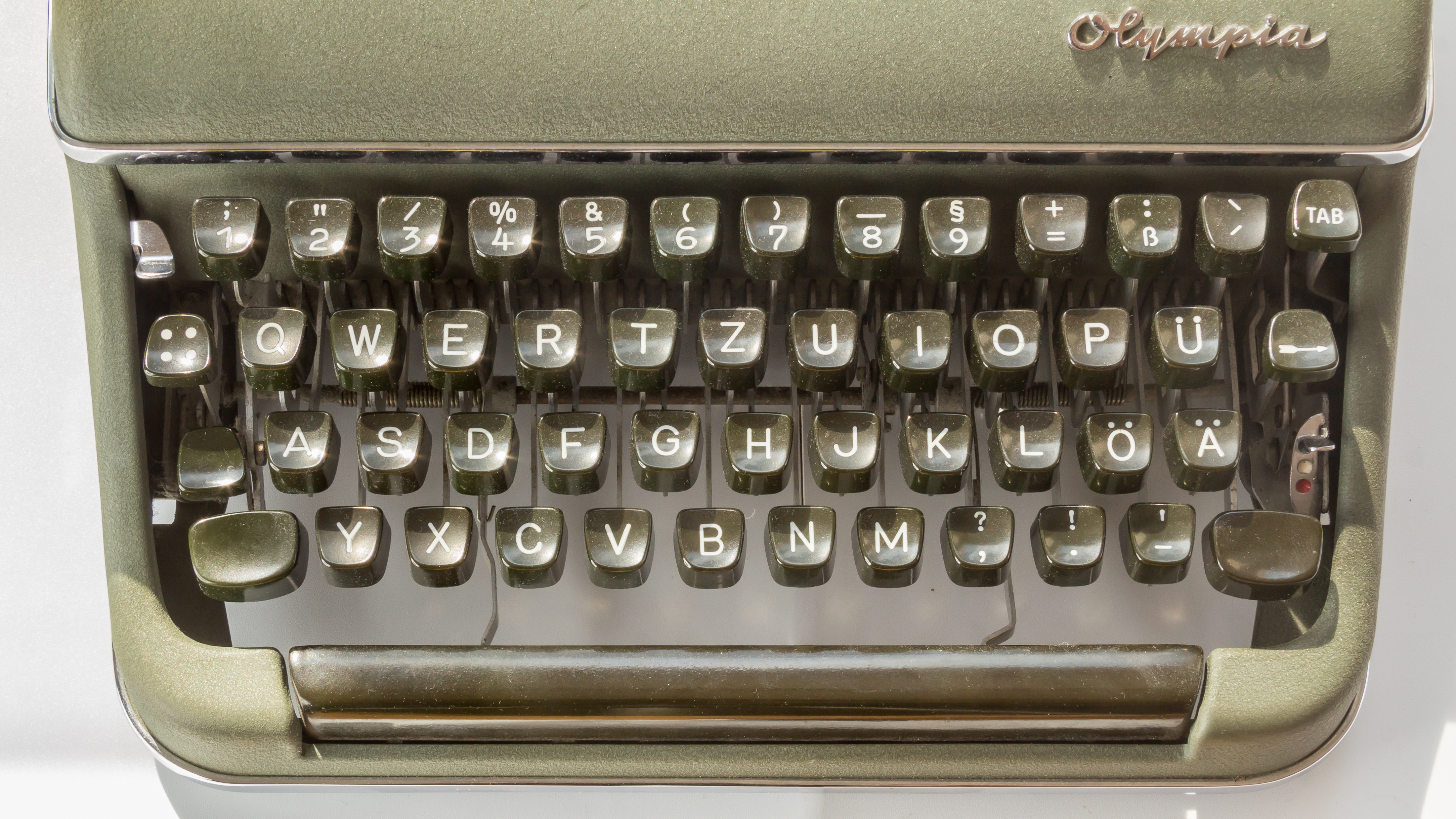 Olympia typewriter - German keyboard layout - QWERTZ keyboard layouts